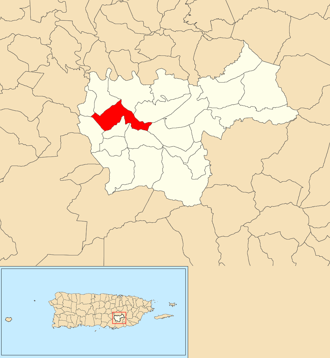 Matón Arriba, Cayey, Puerto Rico locator map